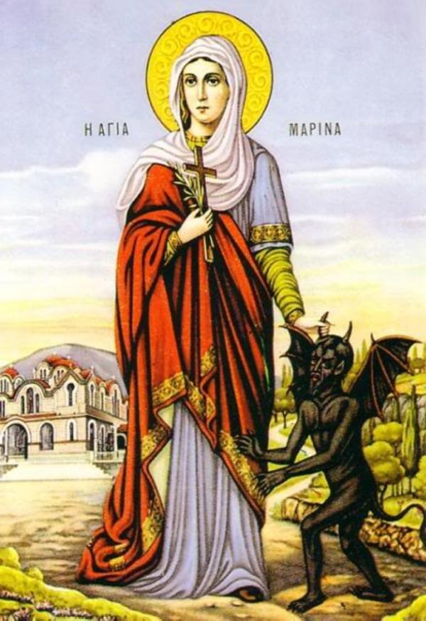 St.Marina of Antioch. A paper icon printed in Greece circa the end of the XIX century